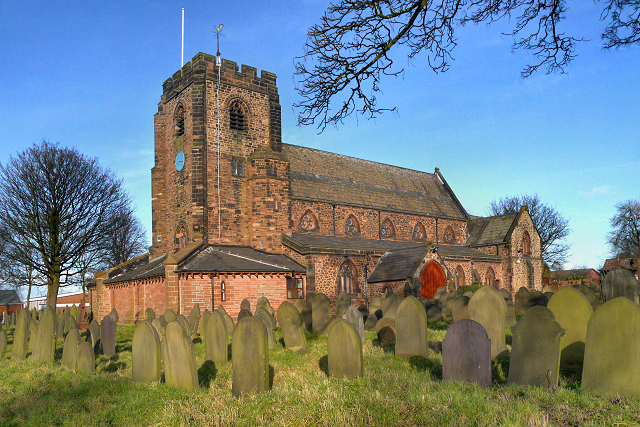 St Nicholas' parish church, New Street, Sutton, Merseyside, seen from the southwest